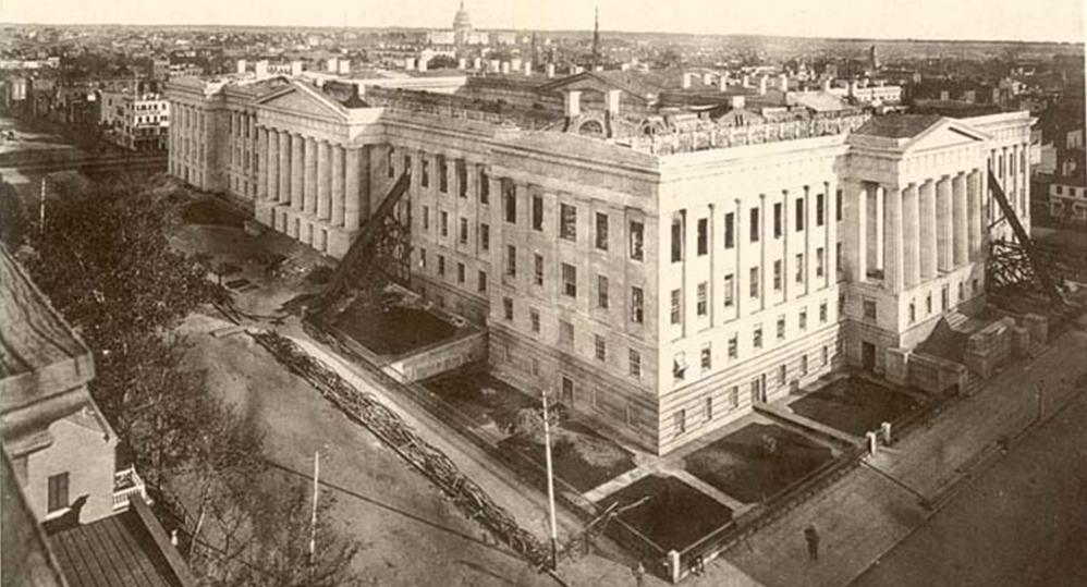 Patent Office 1877 burned out being repaired. View from Ninth and G streets.